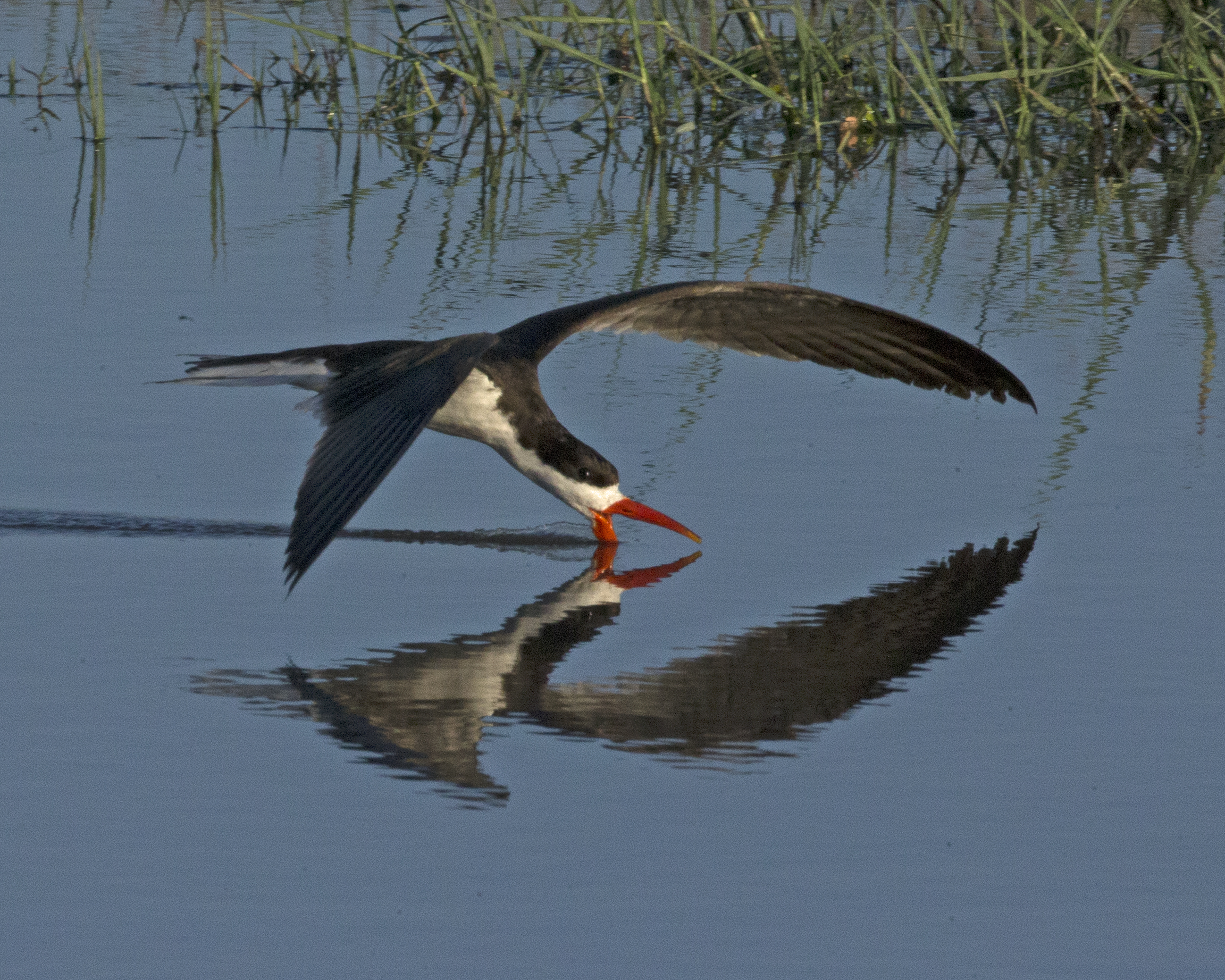 African Skimmer Rynchops flavirostris Chobe, Botswana CF2P5522